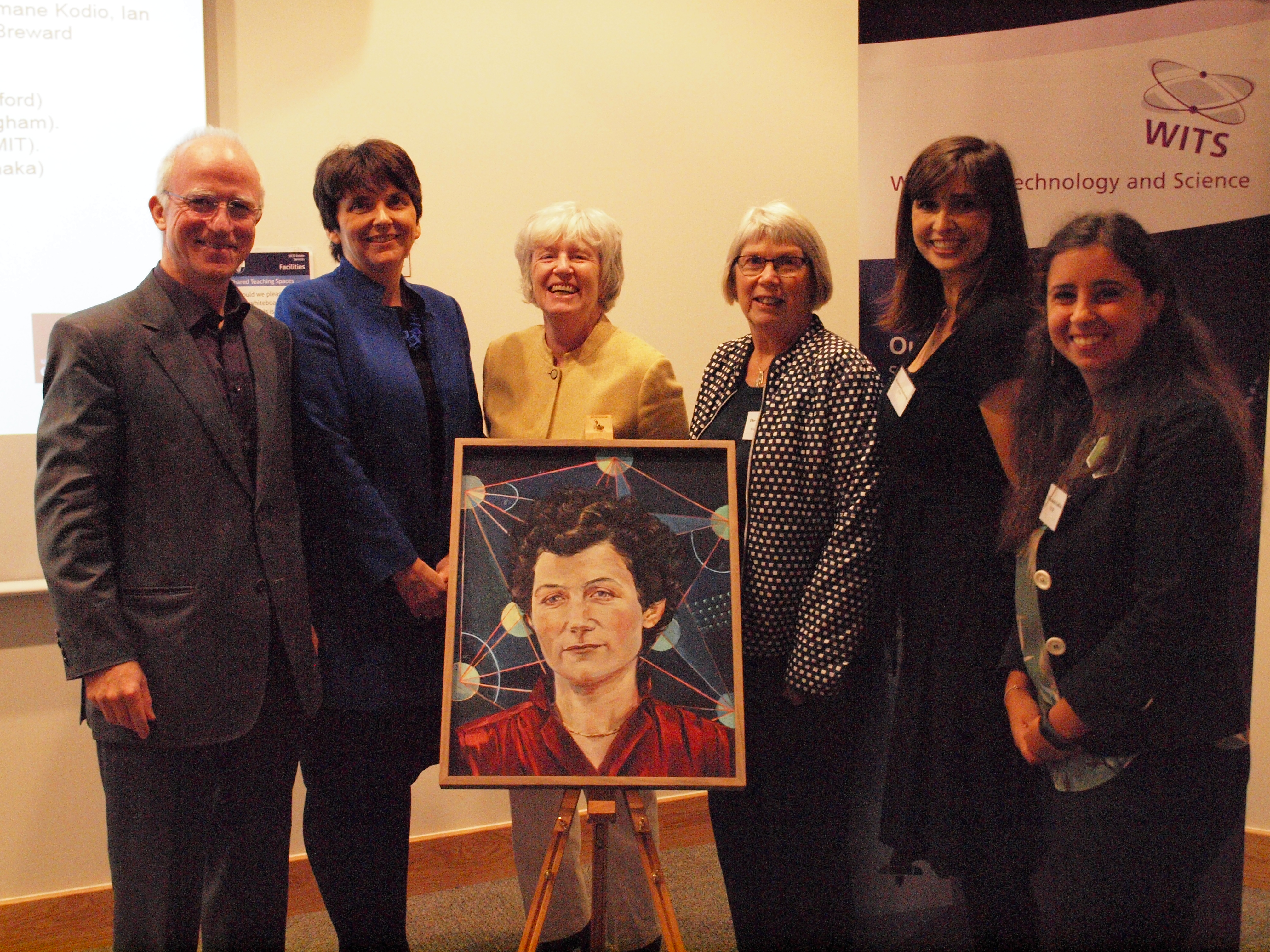 Women in Mathematics Day 2018 annual conference in University College Dublin on 29 August 2018. During this event, the centenary of the birth of Sheila Tinney was celebrated. Hugh Tinney, Orla Feely, Ethna Tinney, Marion Palmer, Aoibhinn Ní Shúilleabháin and Isabella Gollini with the print of the Royal Irish Academy portrait of Tinney, presented to UCD by WITS.